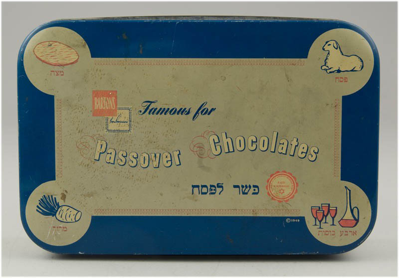 Description: Container for Passover Chocolates Creator: Barton's Inc. Medium: tin Date: circa 1949 Persistent URL: Repository: Yeshiva University Museum, 15 West 16th Street, New York, NY 10011 Accession Number: 1993.061 Rights Information: No known copyright restrictions; may be subject to third party rights. For more copyright information, click here. See more information about this image and others at CJH Museum Collections.